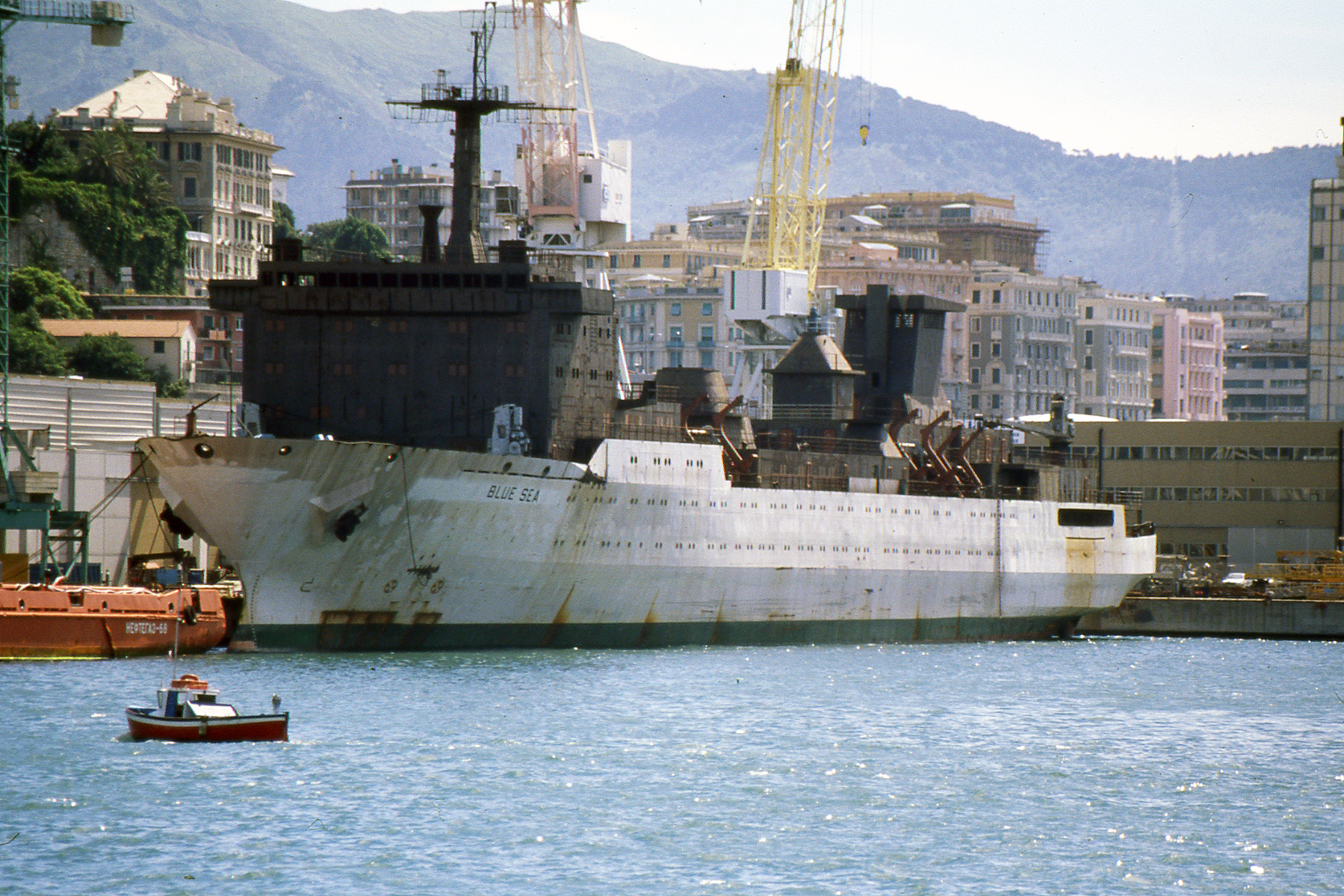 The cruise ship Blue Sea during its rebuilding at Genoa on July 6, 1997.